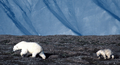 Polar Bear mother and cub, Liefdefjord, Svalbard, by Michael Haferkamp, July 2002